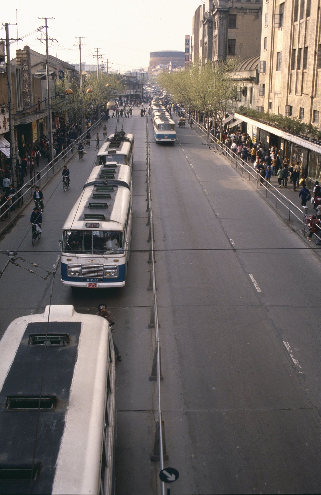 Xizang Road, Shanghai, View from pedestrian bridge